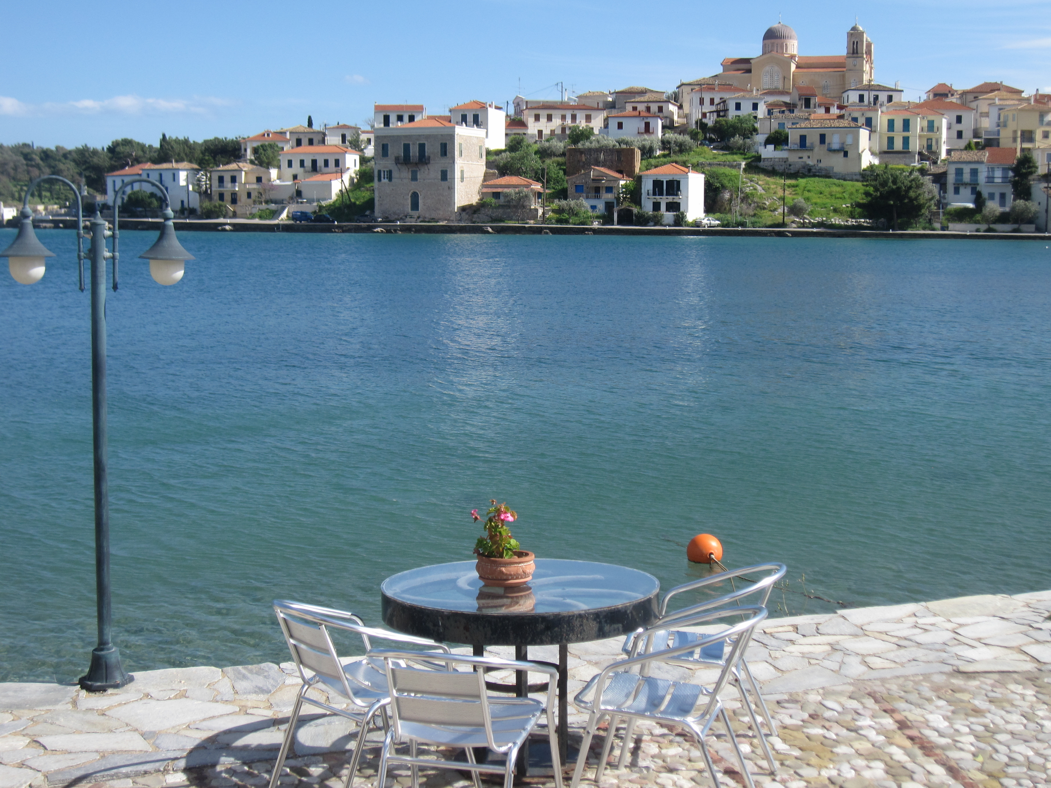 City view from harbour